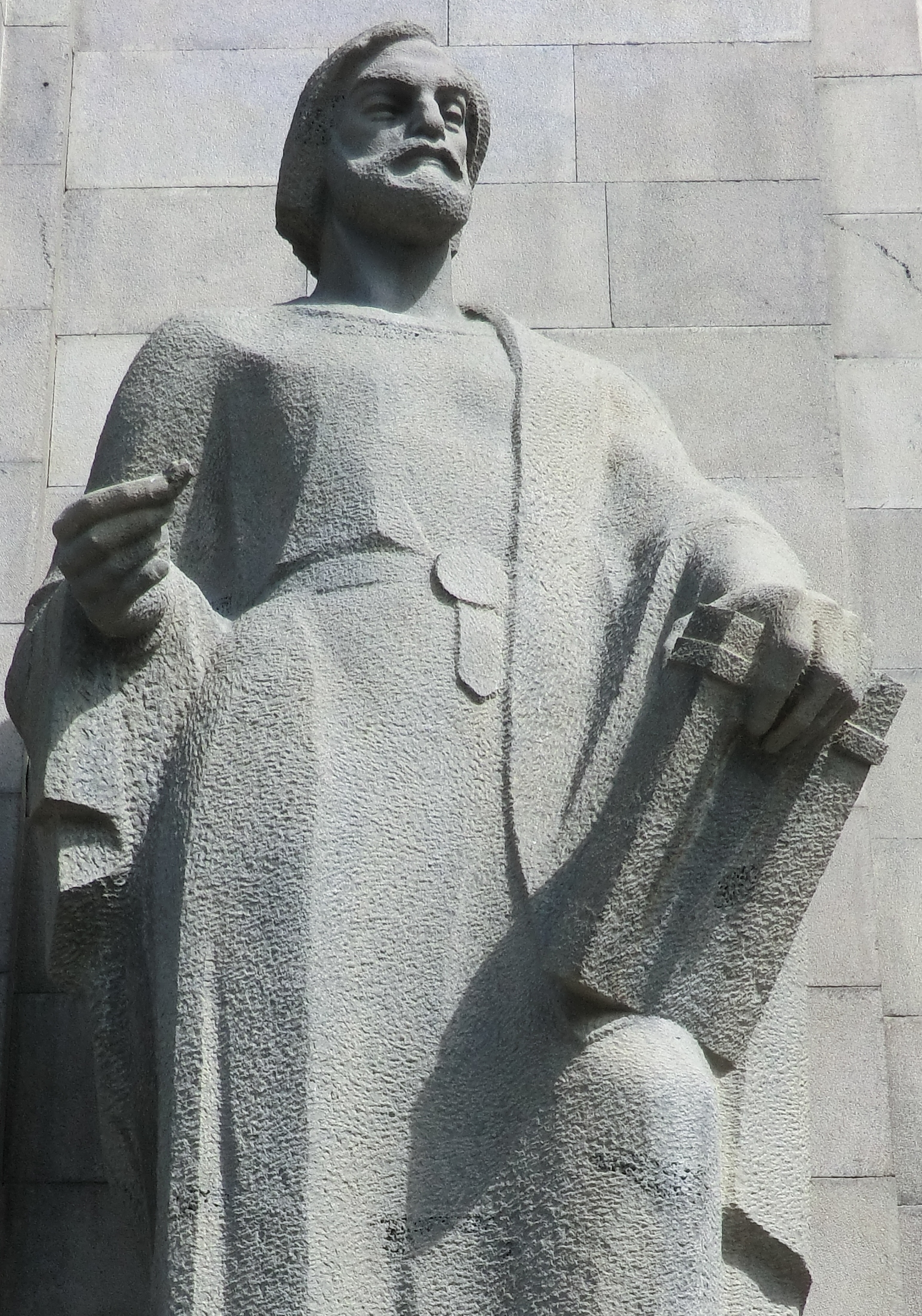 Roslin statue (Matenadaran).